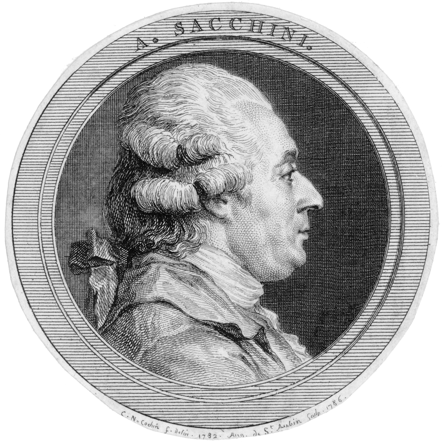 Depicted person: Antonio Sacchini